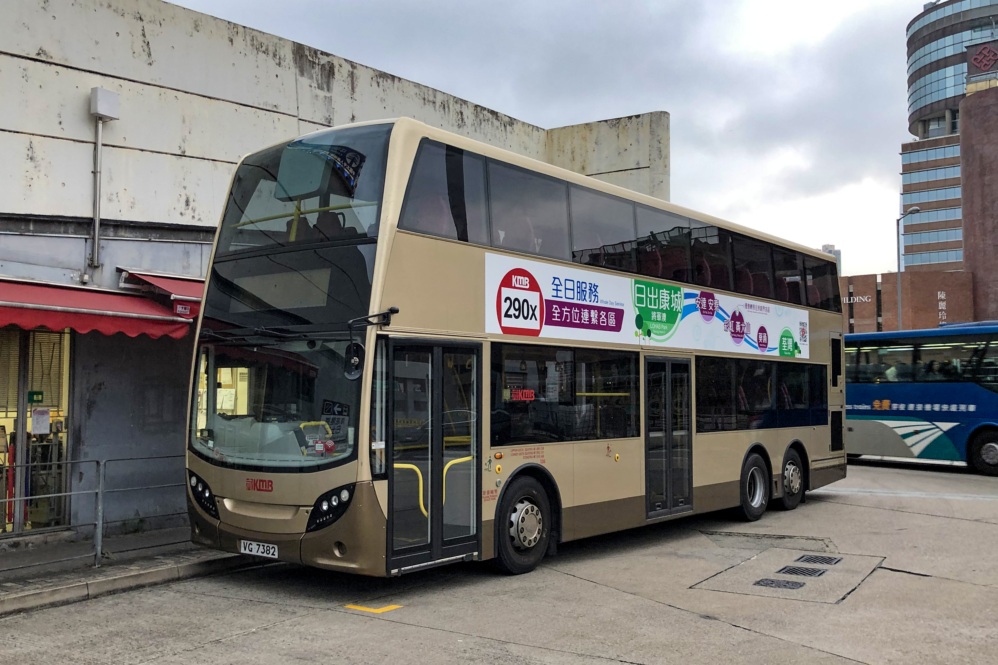 Unexpected encounter outside PolyU... seen with 290X promotional banner.